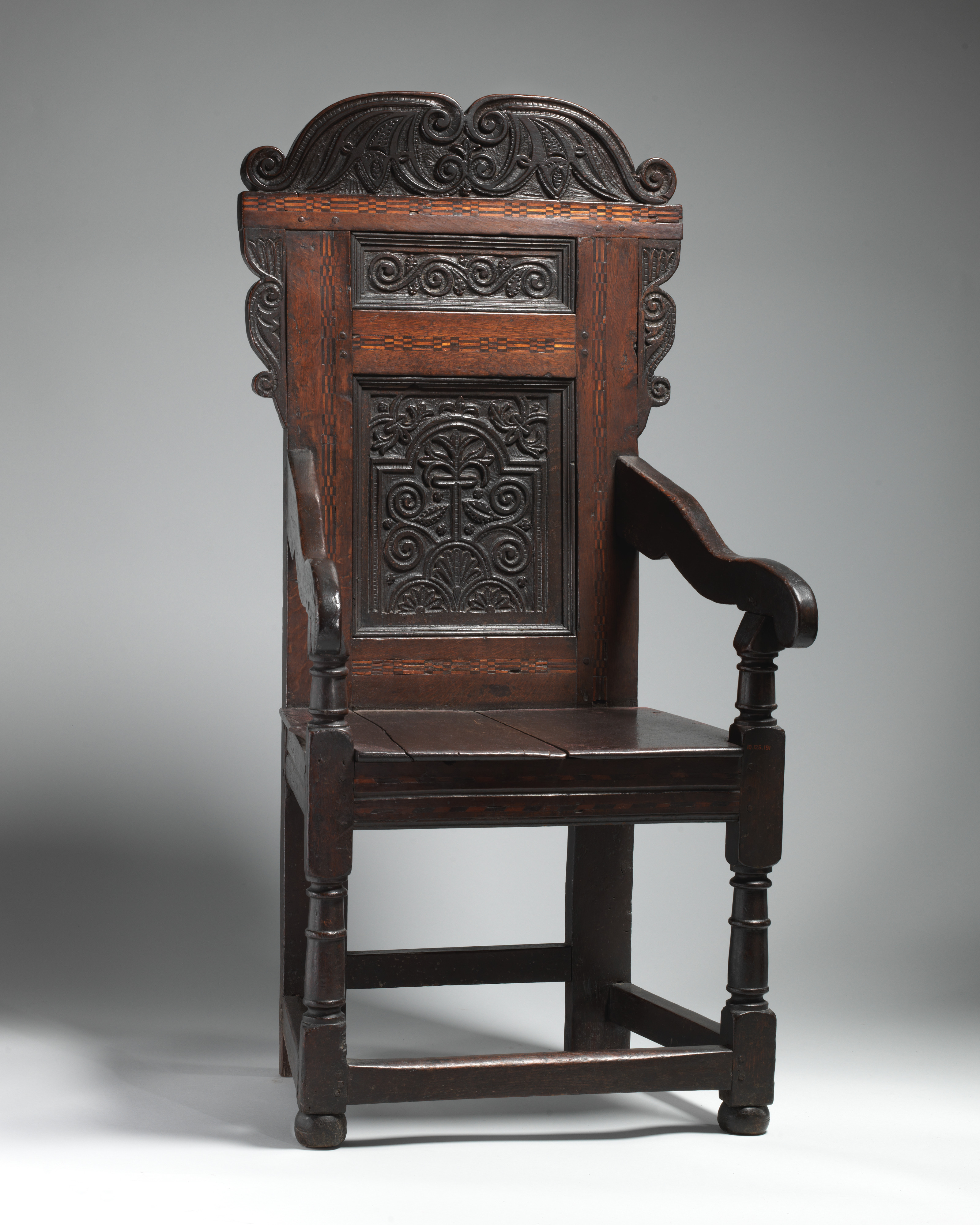 British; Armchair; Woodwork-Furniture